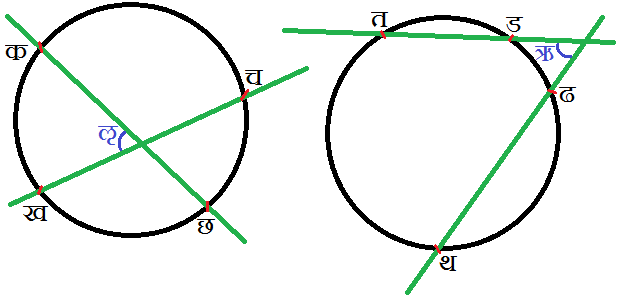 information about secant in marathi